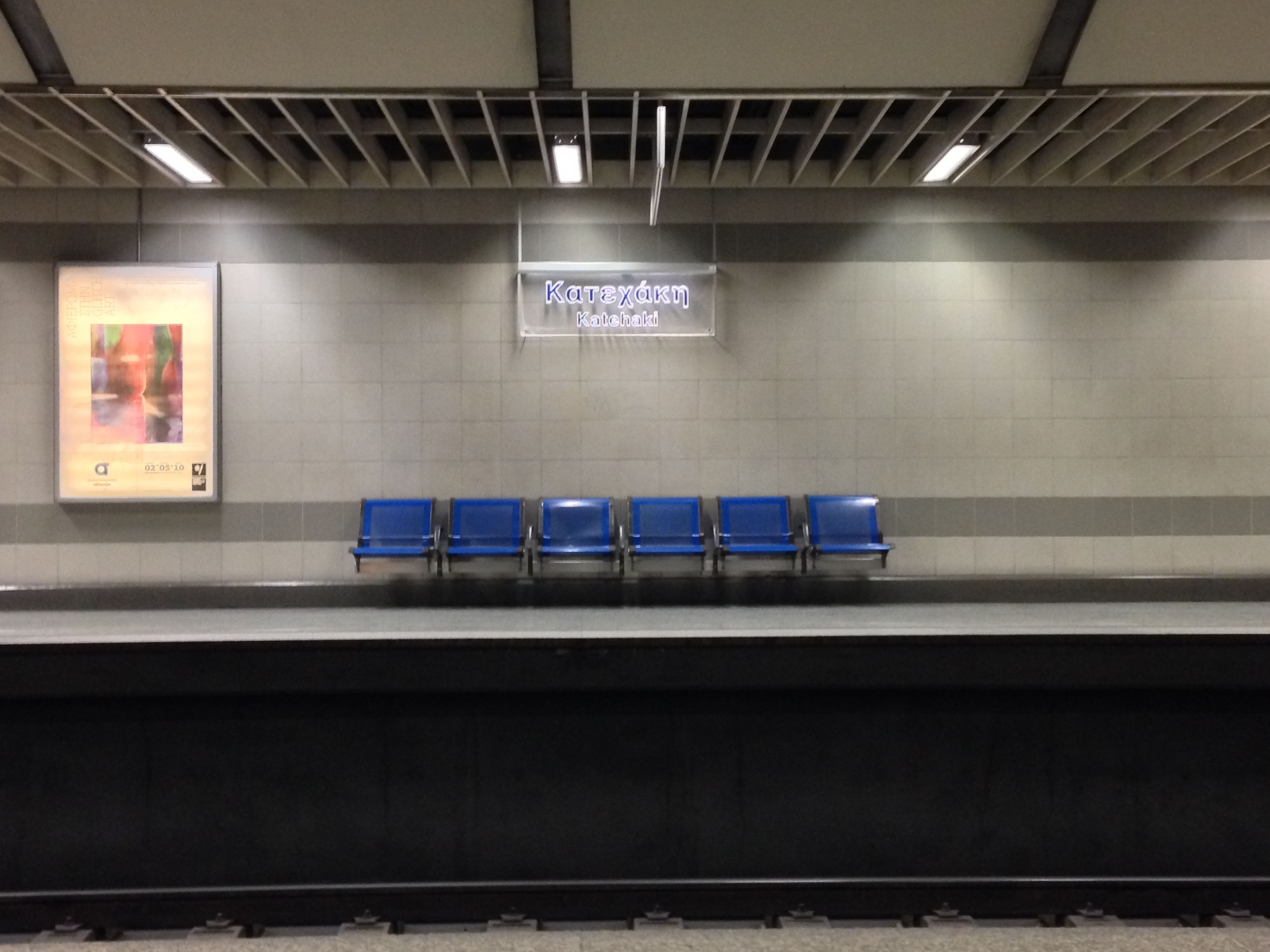 Platform of Katechaki metro station, Athens Metro, line 3